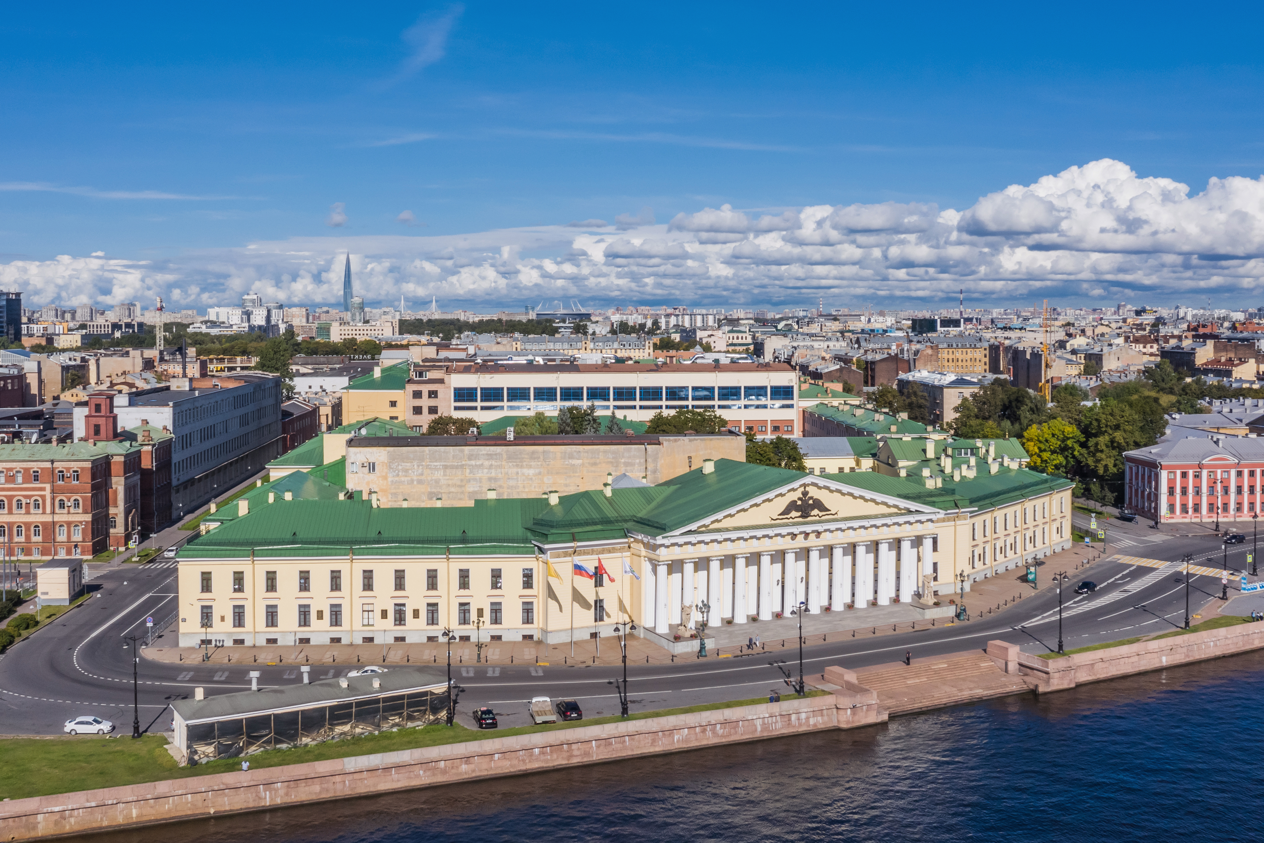 Building of the Mining College on Vasilievsky Island in Saint Petersburg, Russia: aerial photo